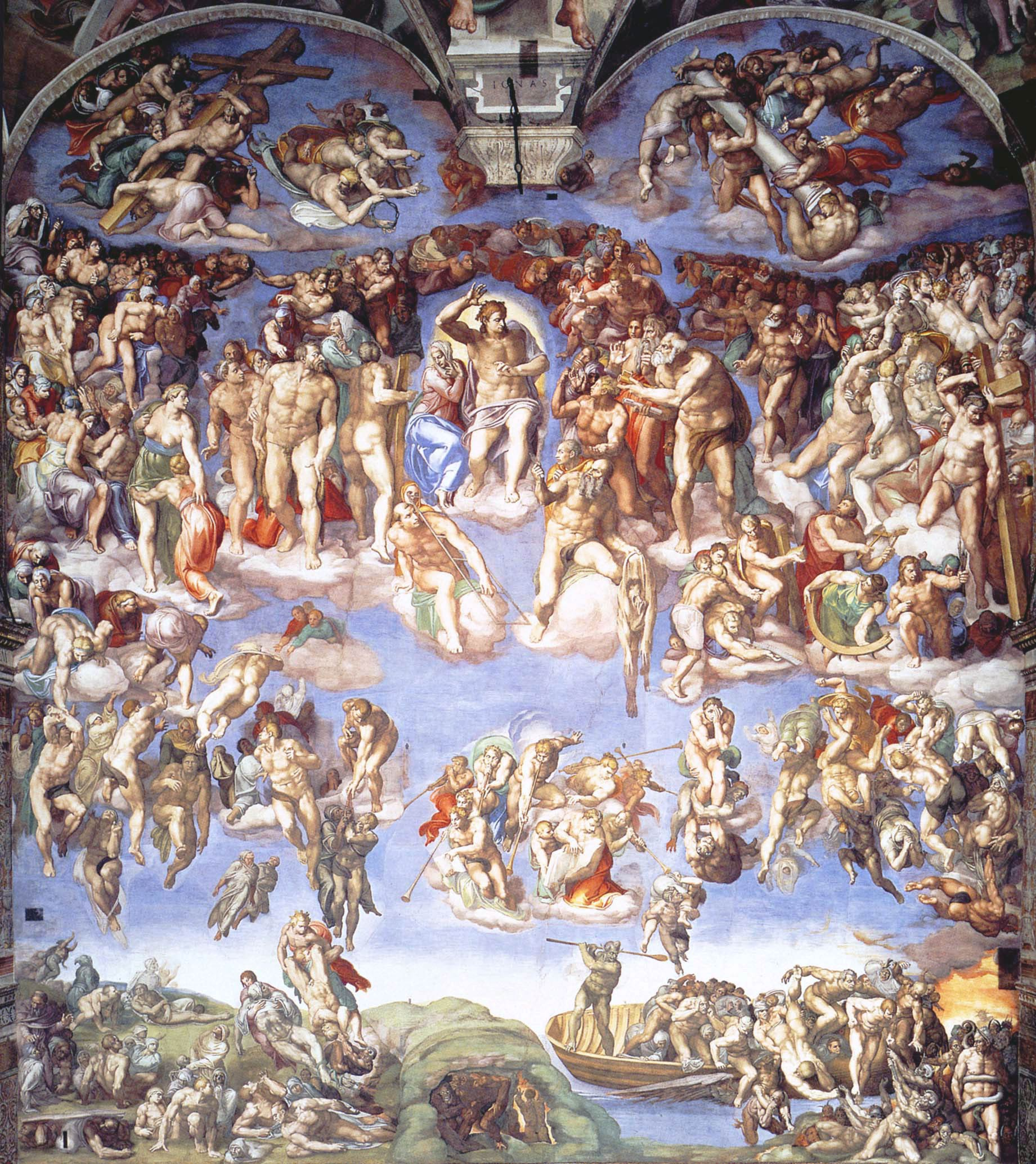 The Last Judgment}